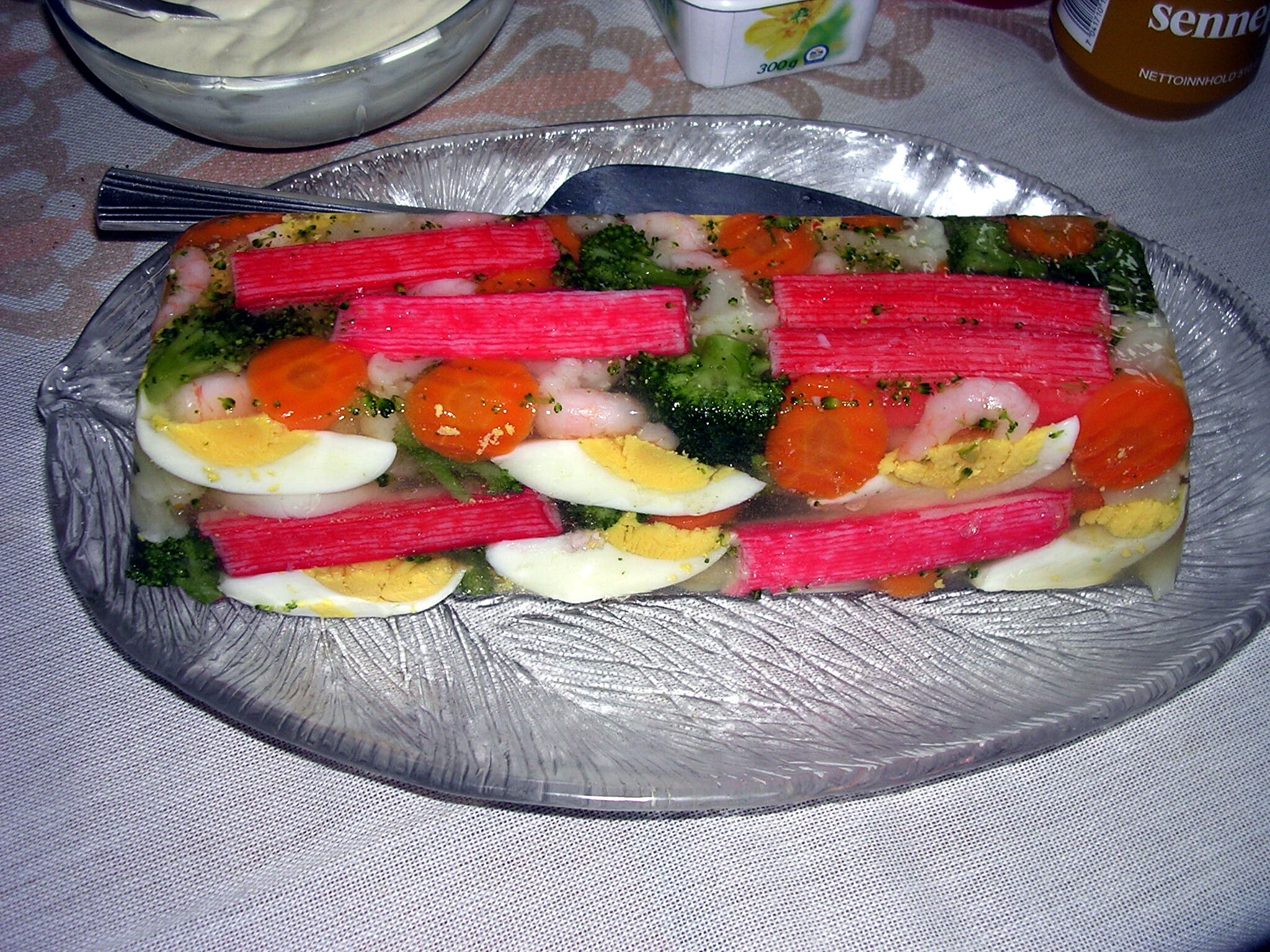 Kabaret is food.